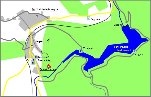 Map of Zagorze Slaskie